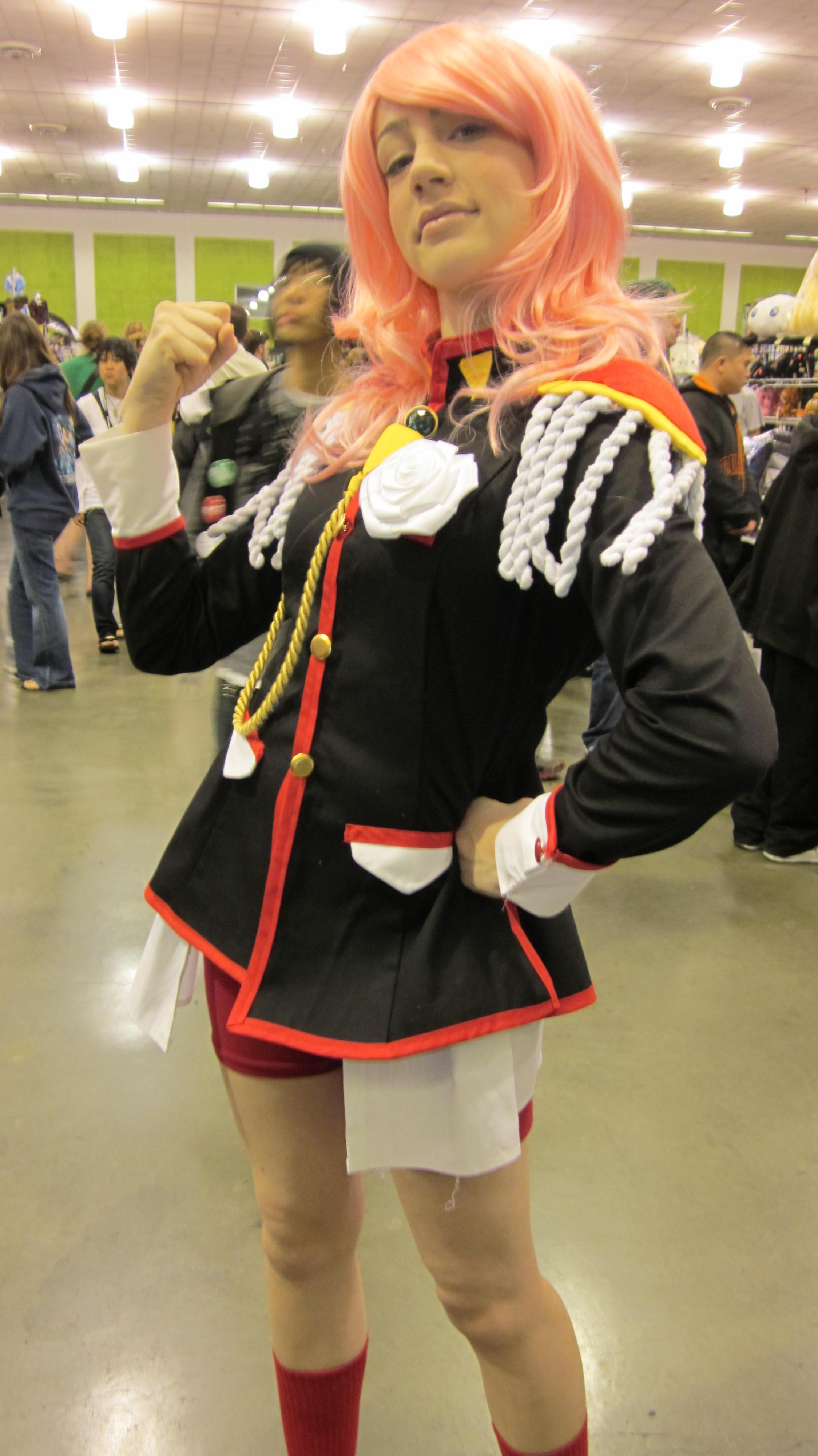 A cosplayer portraying Utena Tenjou from Revolutionary Girl Utena at FanimeCon 2010.中文（台灣）: FanimeCon 2010，《少女革命》天上歐蒂娜cosplayer。